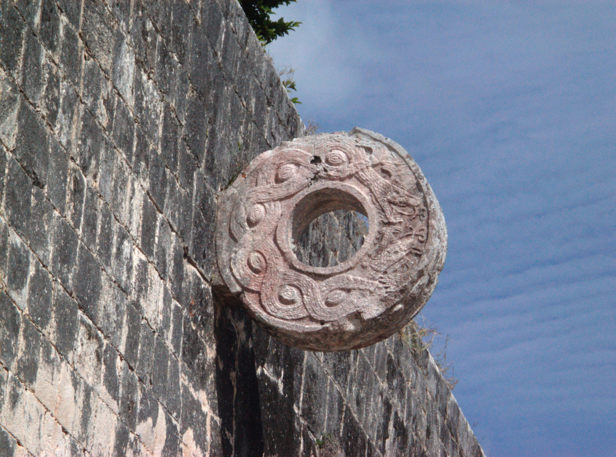 A Goal in the Ball Court at Chichén Itzá, Mexico.